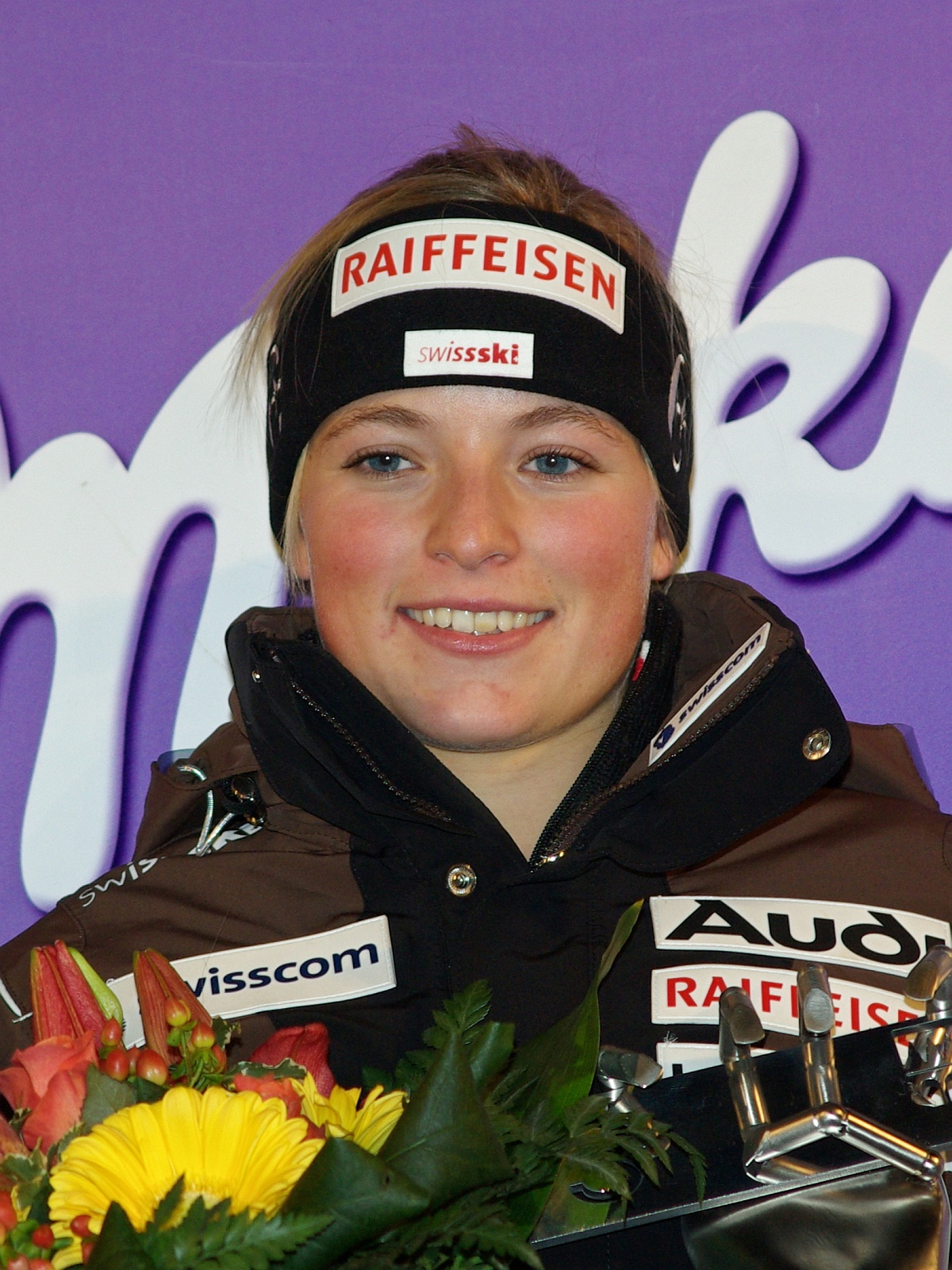 Swiss alpine skier Lara Gut at the prize giving ceremony for the Giant Slalom in Semmering (Austria) on 28 December 2008.